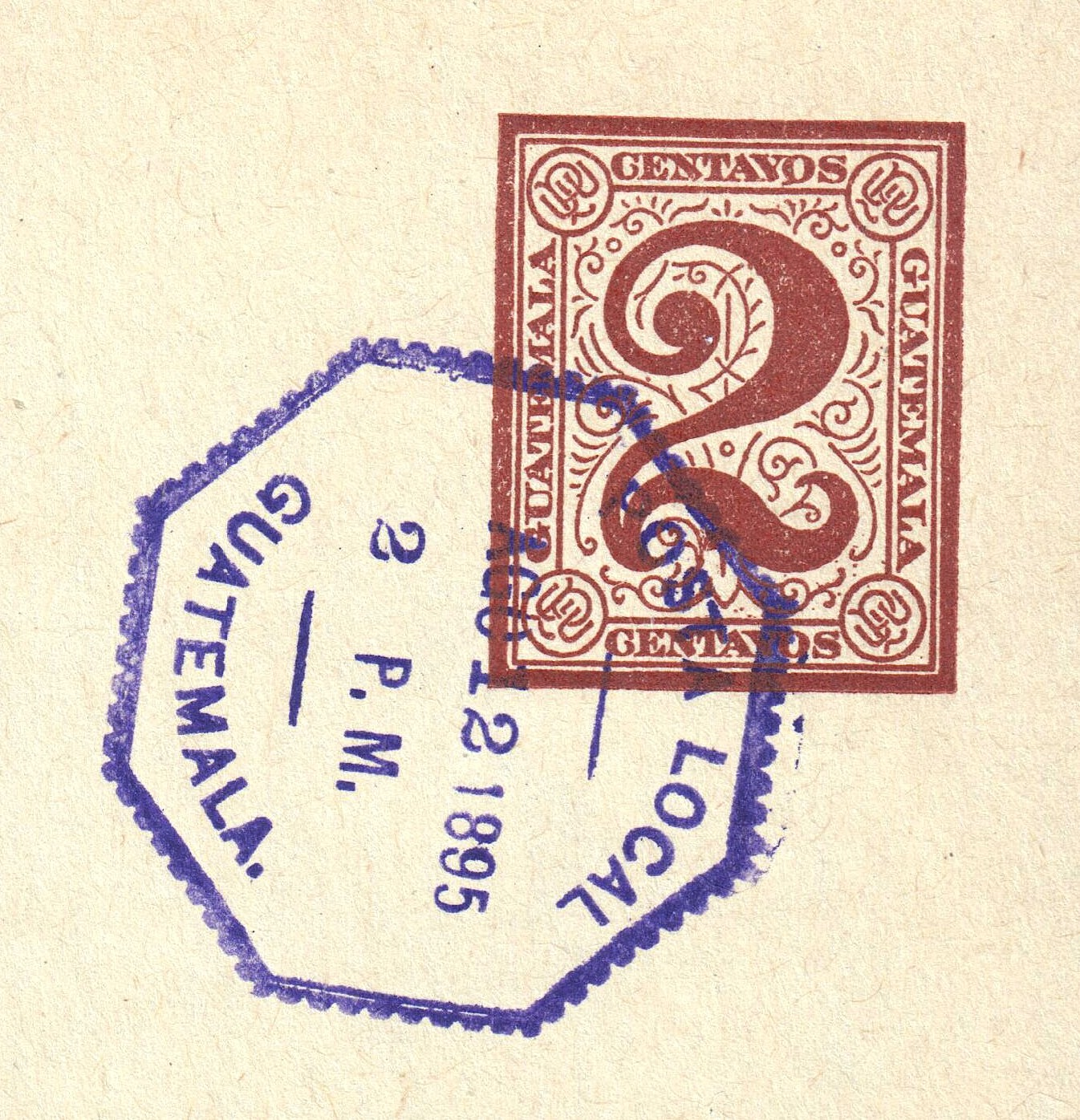 Guatemala 1890 used wrapper cut square, with octagonal 'Poste Local 1895' postmark.